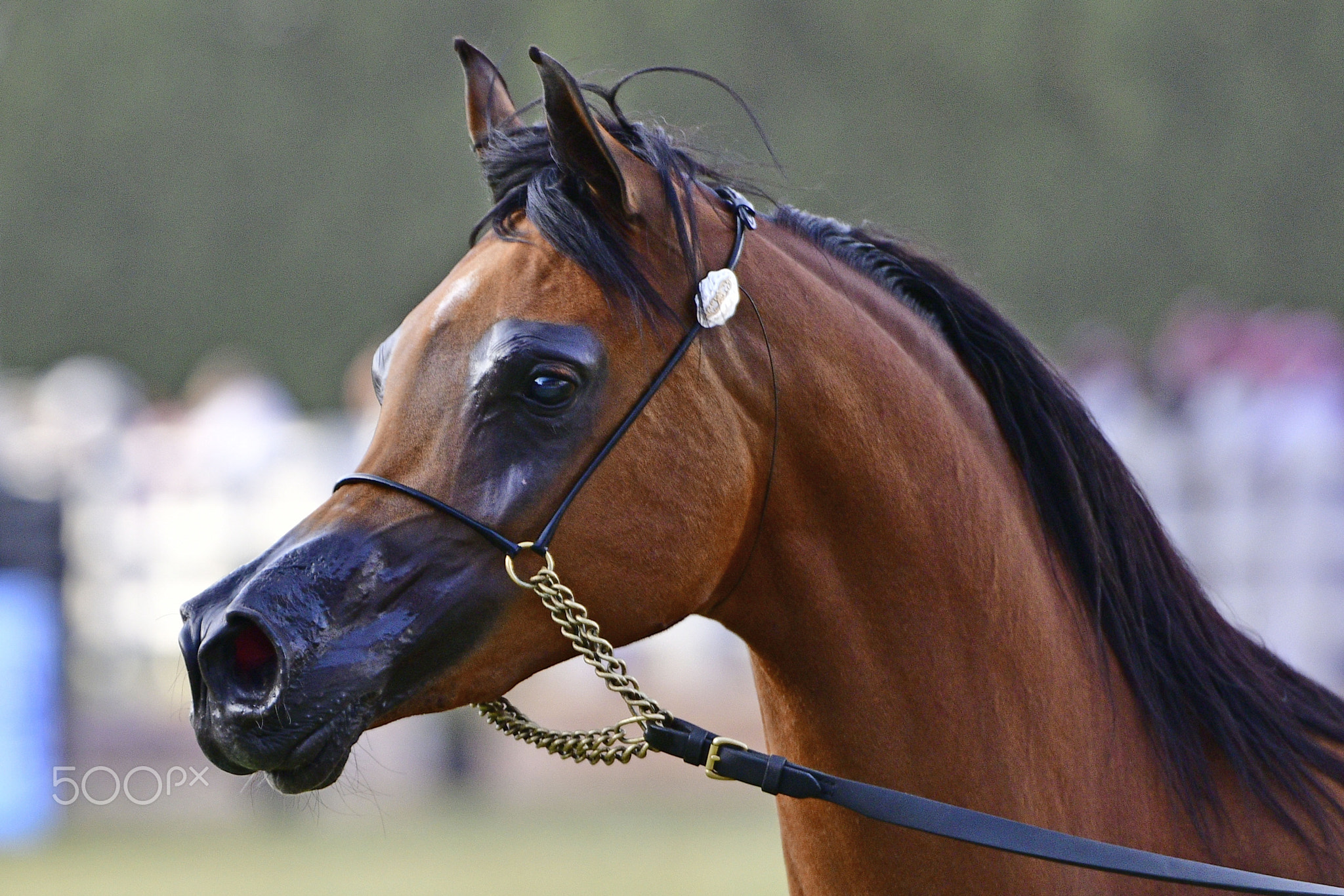 500px provided description: Arabian Horse [#horse ,#saddle ,#stallion ,#pasture ,#farming ,#mare ,#paddock ,#paint horse ,#gallop ,#quarter horse ,#filly ,#swabian alps ,#Riyadh ,#equestrian event ,#Arabian Horeses ,#Prince Sultan]